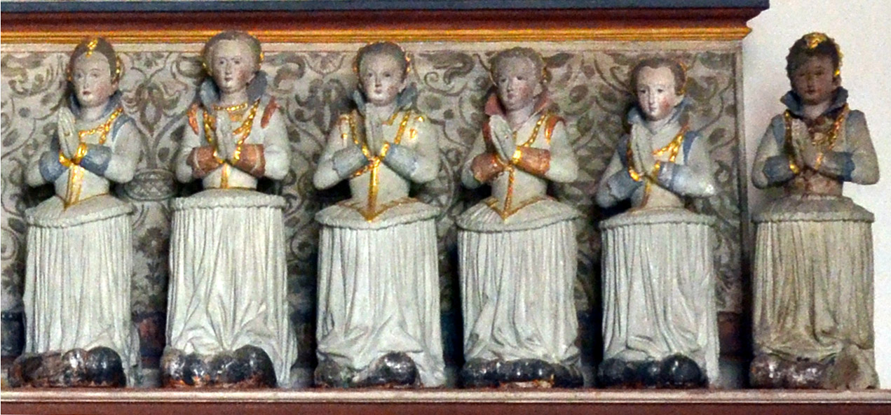 Epitaph of Bernhard von Bibra and Sibylle von Witzleben detail of daughter